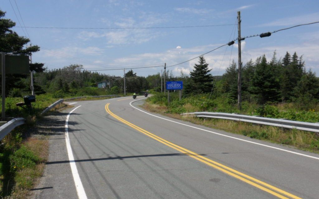 Looking west along Highway 7 at Ecum Secum, Nova Scotia